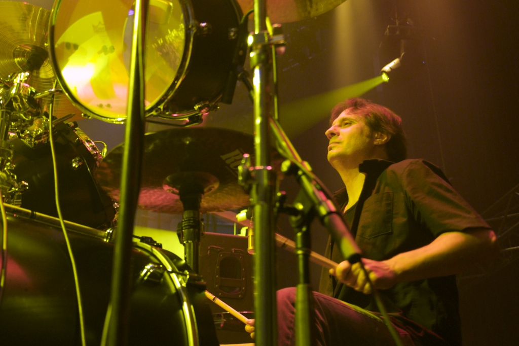 Dave Lombardo playing with Slayer in 2009